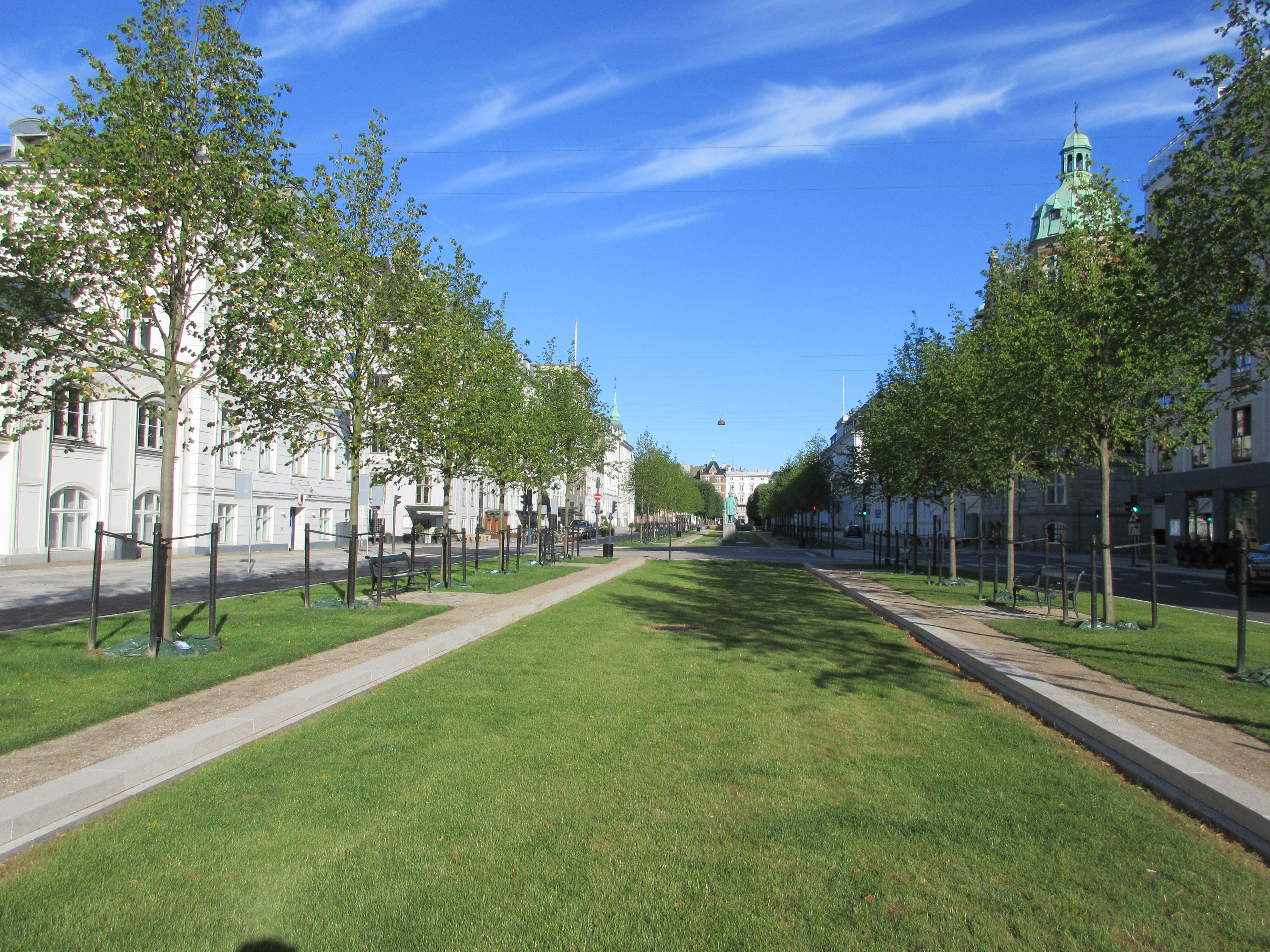 Sankt Annæ Plads in Copenhagen, Denmark